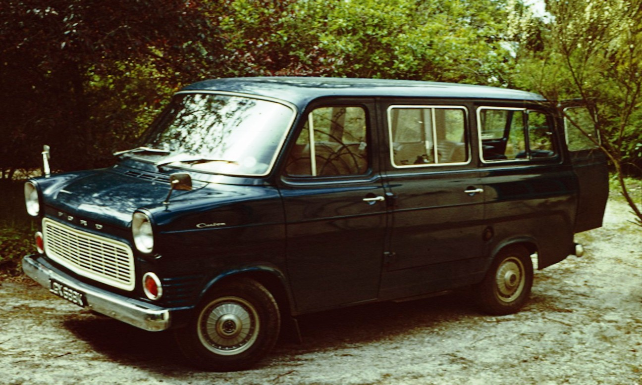 Ford Transit Minibus 1971